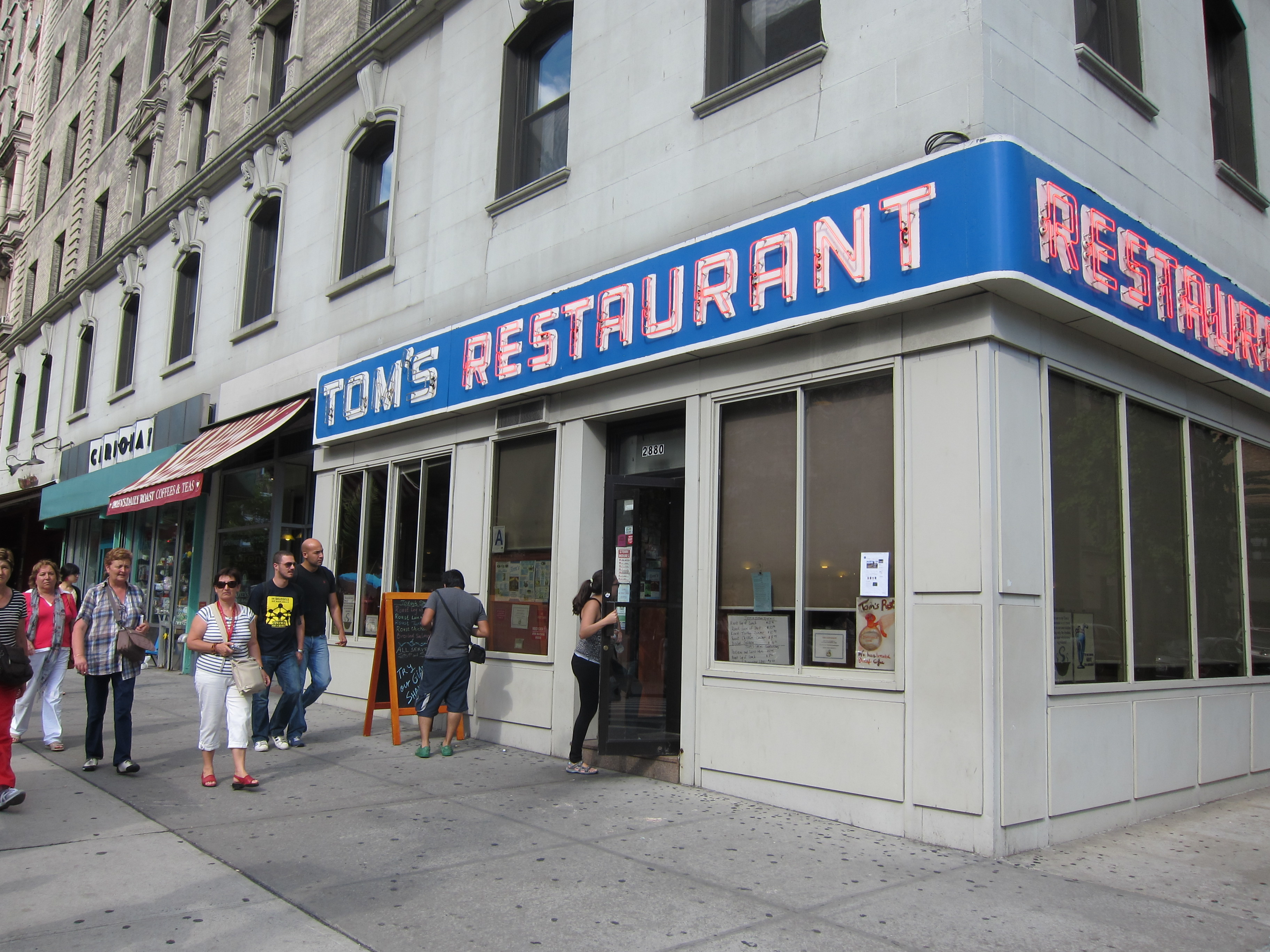 Tom's Restaurant, NYC. Famous as Monk's in Seinfeld, and as "Tom's Diner", in the Suzanne Vega song of that name. It is located at the northeast corner of W. 112th Street and Broadway in New York, close to the campus of Columbia University, in the same building as the Goddard Institute of Space Studies.